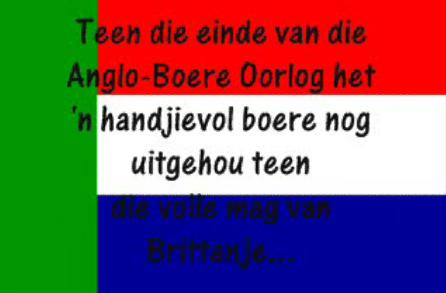 Image depicts the old Transvaal four color (Vierkleur) flag with the inscription loosely translated as: At the end of the Anglo-Boer war a handful of Boers still stood fast against the British might. It relates to the song De la Rey by South African musician Bok van Blerk; a tribute to Anglo-Boer War General Koos De la Ray